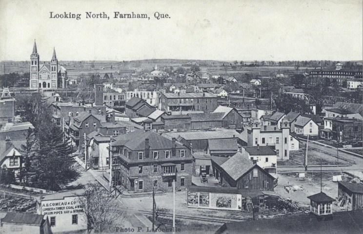 Looking north, Farnham, Quebec, Canada.